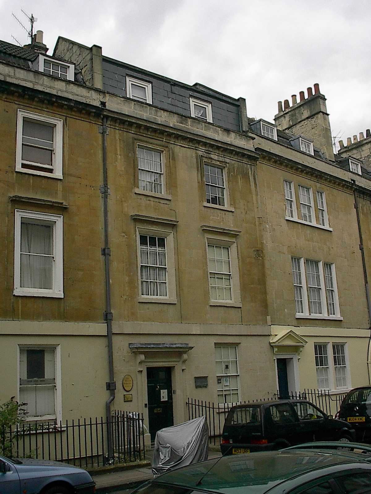 Image of the Herschel Museum, New King Street, Bath. Taken August 2005 by Nick Veitch